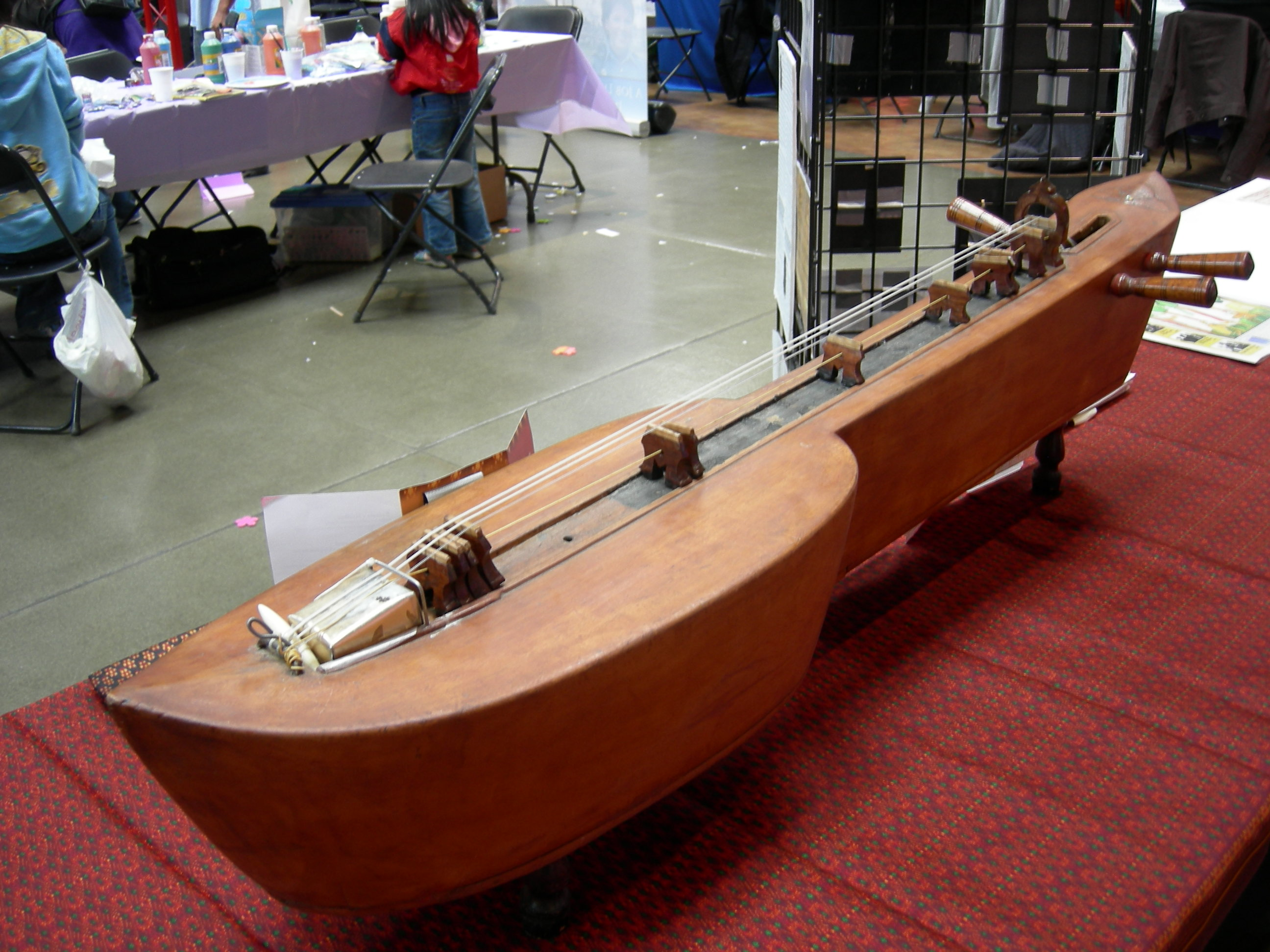 A krapeu (also called takhe), a crocodile-shaped fretted floor zither with three strings, used in the classical music of the Khmer people of Cambodia. Photograph taken at the API (Asian Pacific Islander) Heritage Month Festival, part of Festál at Seattle Center, Seattle, Washington, United States. The instrument is in bad shape--the frets should be all in a row, but they're all over the place, with some missing. Notice that the frets are kept from being lost by a string that passes through the middle of all of them. Traditionally the frets were affixed with hot wax but nowadays glue is often used.